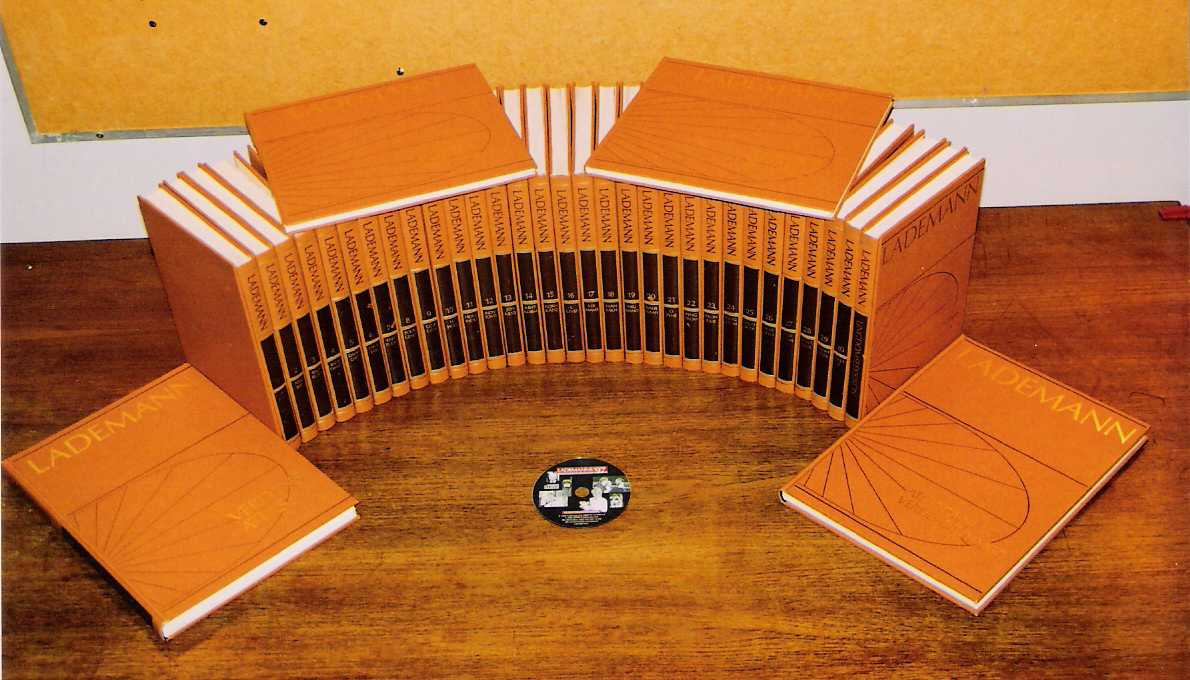 A paper encyclopedia compared to the corresponding CD-ROM version. Danish Lademanns leksikon (1971-1989).